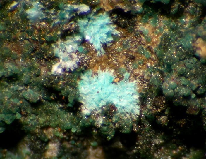 Kapellasite Locality: Sounion Mine No. 19 ("Chloridstollen"), Sounion Mines, Sounion area, Lavrion District Mines, Lavrion (Laurion; Laurium) District, Attikí (Attica; Attika) Prefecture, Greece Blue acicular xls of Kapellasite. Field of view 6 mm. Specimen and photo Leon Hupperichs.